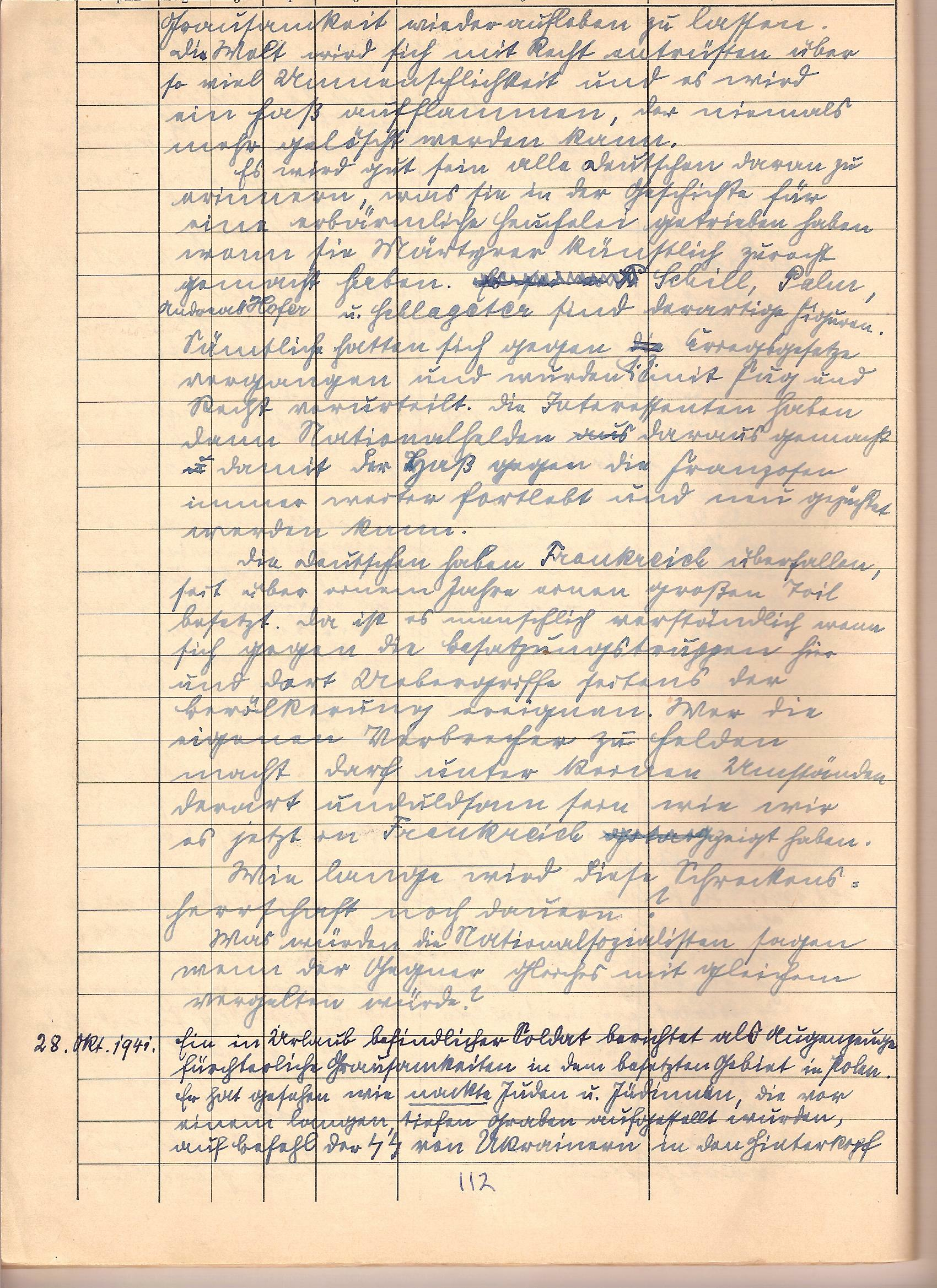 Entry in the Friedrich Kellner diary that reports on the mass murders of the Jews. This is the beginning of the entry. Also available on Commons is the remainder of the entry, listed as: Kellner diary Oct 28 1941 murders - page 2. Author: Robert Scott Kellner Source: scan of the diary page.